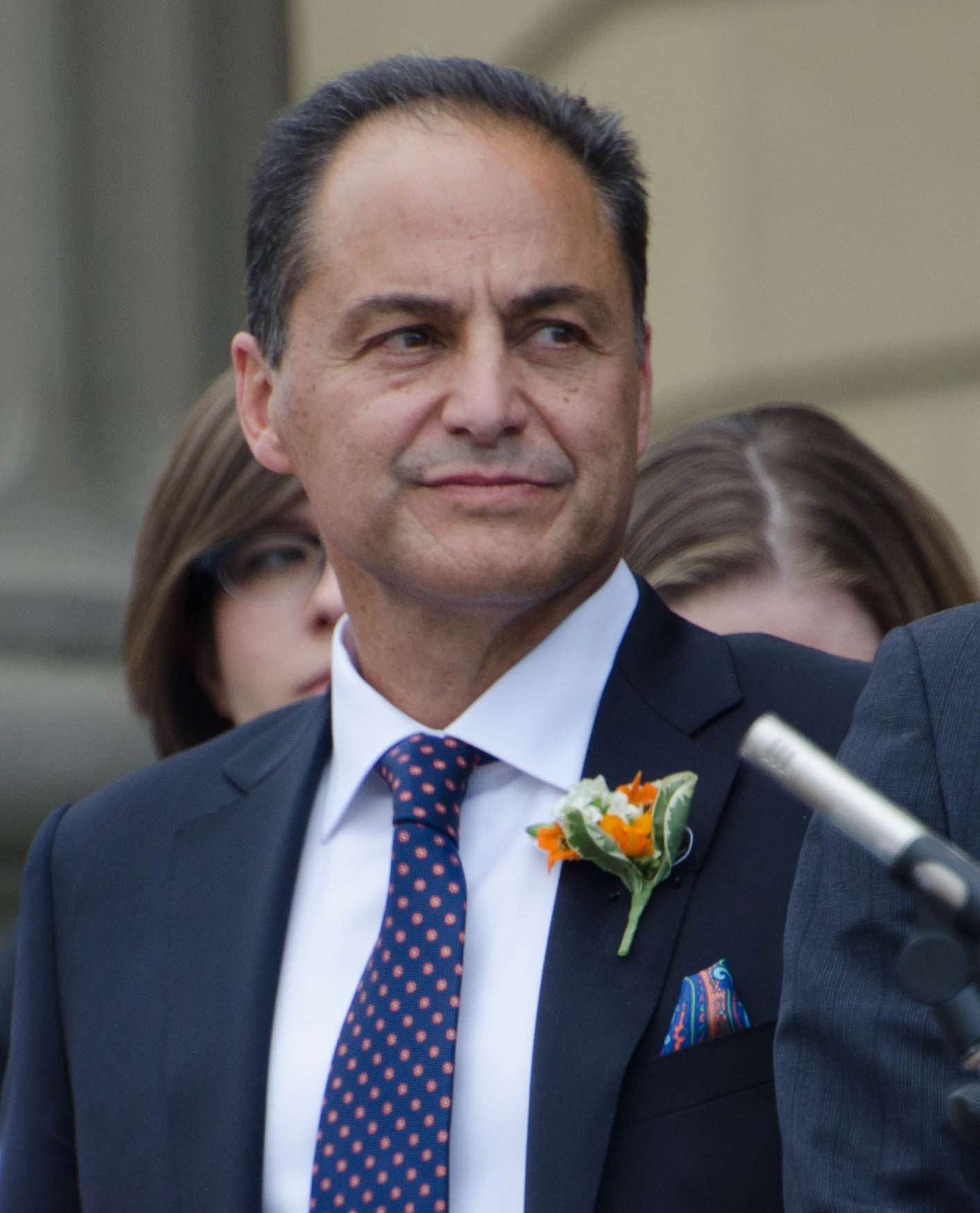 Joe Ceci at the 2015 Alberta Premier/Cabinet swearing-in ceremony, by Connor Mah.